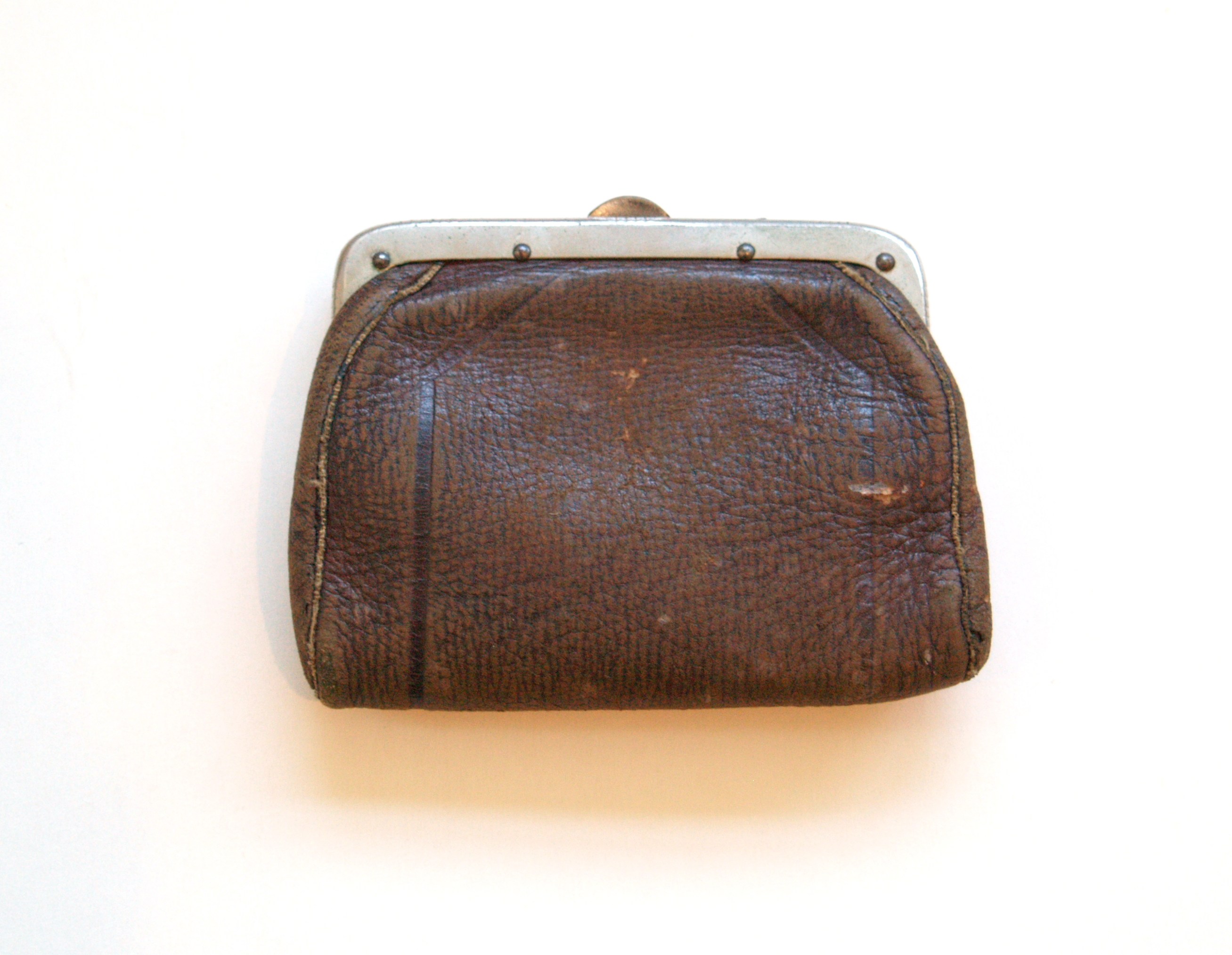 Women's purse; 'imitation leather envelope style' leather and imitation leather with metal fittings and one internal compartment with green cotton cloth; one external pocket with green cloth lining and compartments for stamps